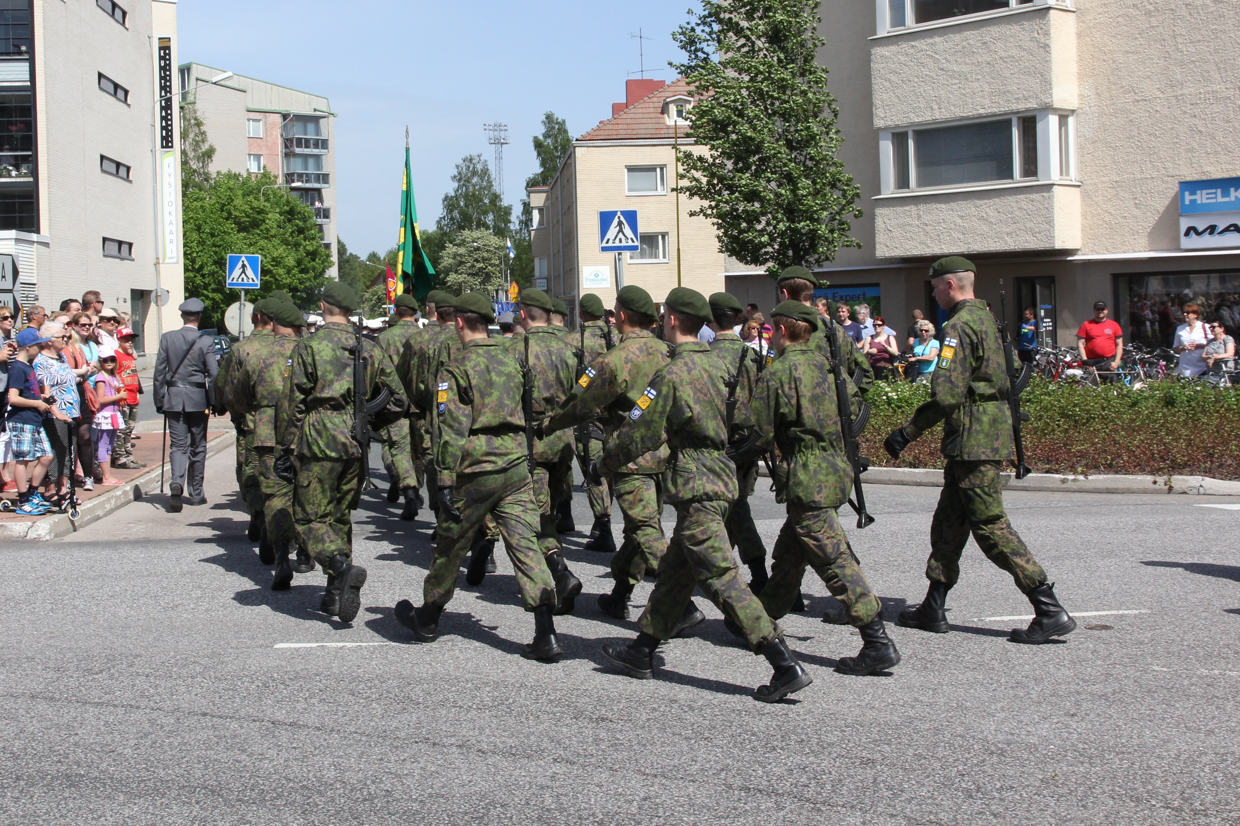 Land warfare school unit during the Finnish military Flag Day 2014 parade along Valtakatu street in Lappeenranta.